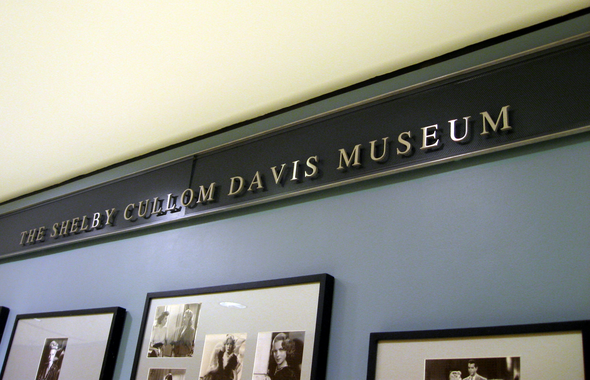 One of the display areas of the Shelby Cullom Museum at the New York Public Library for the Performing Arts